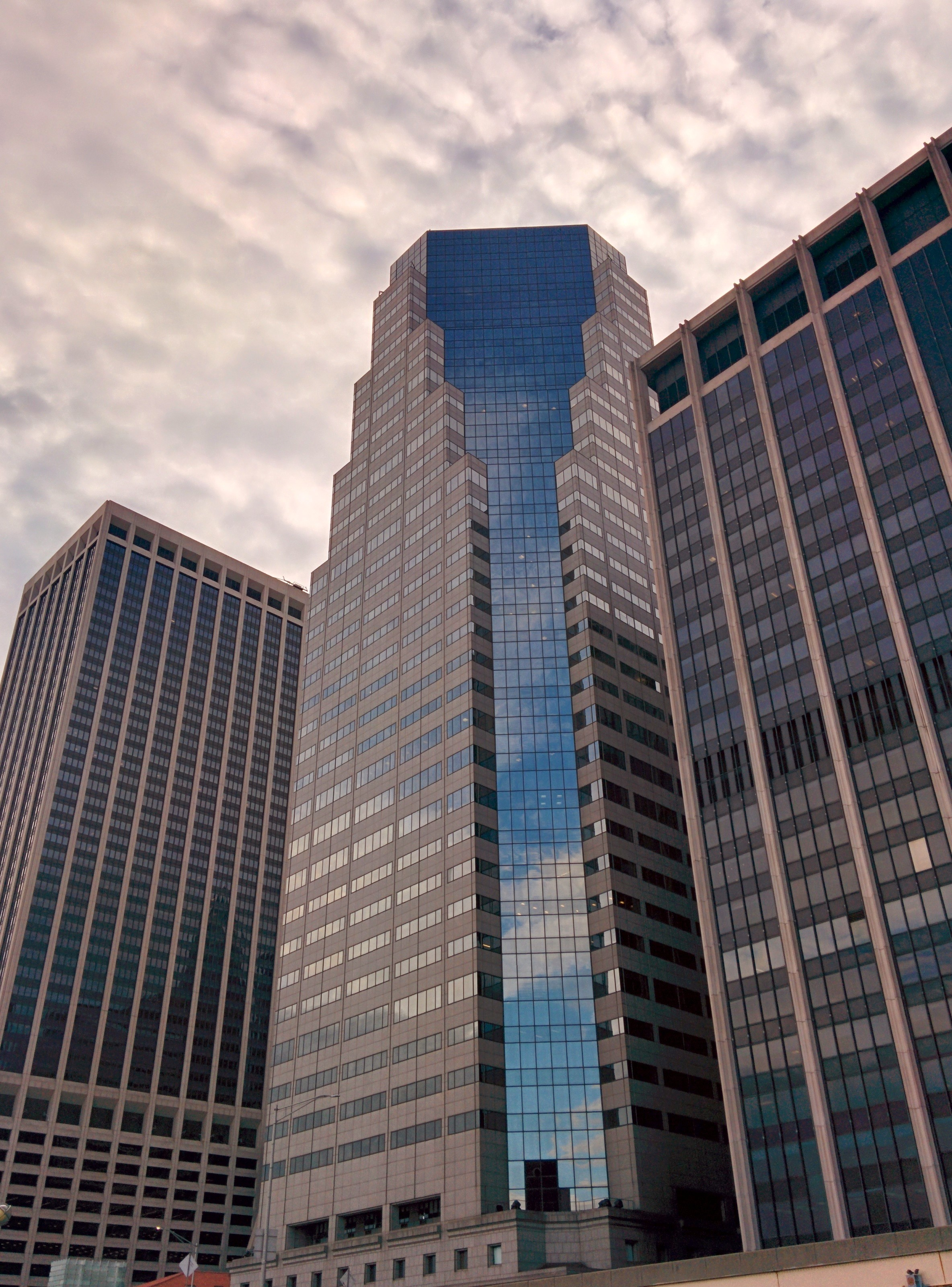 32 Old Slip, a building in the Financial District of New York City, as seen from the East River